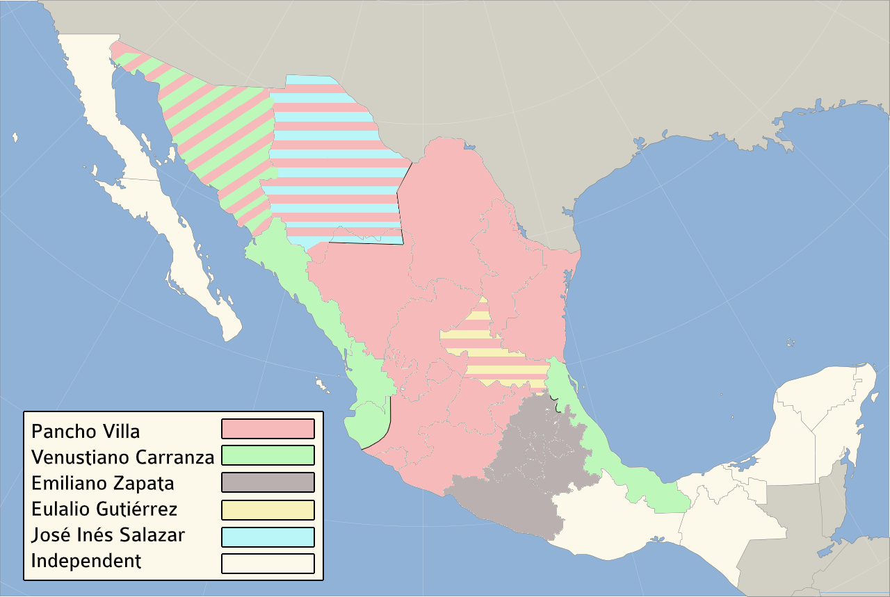 Map of zones of control during the Mexico Revolution as of 1915: Pancho Villa José Inés Salazar Eulalio Gutiérrez Emiliano Zapata Venustiano Carranza